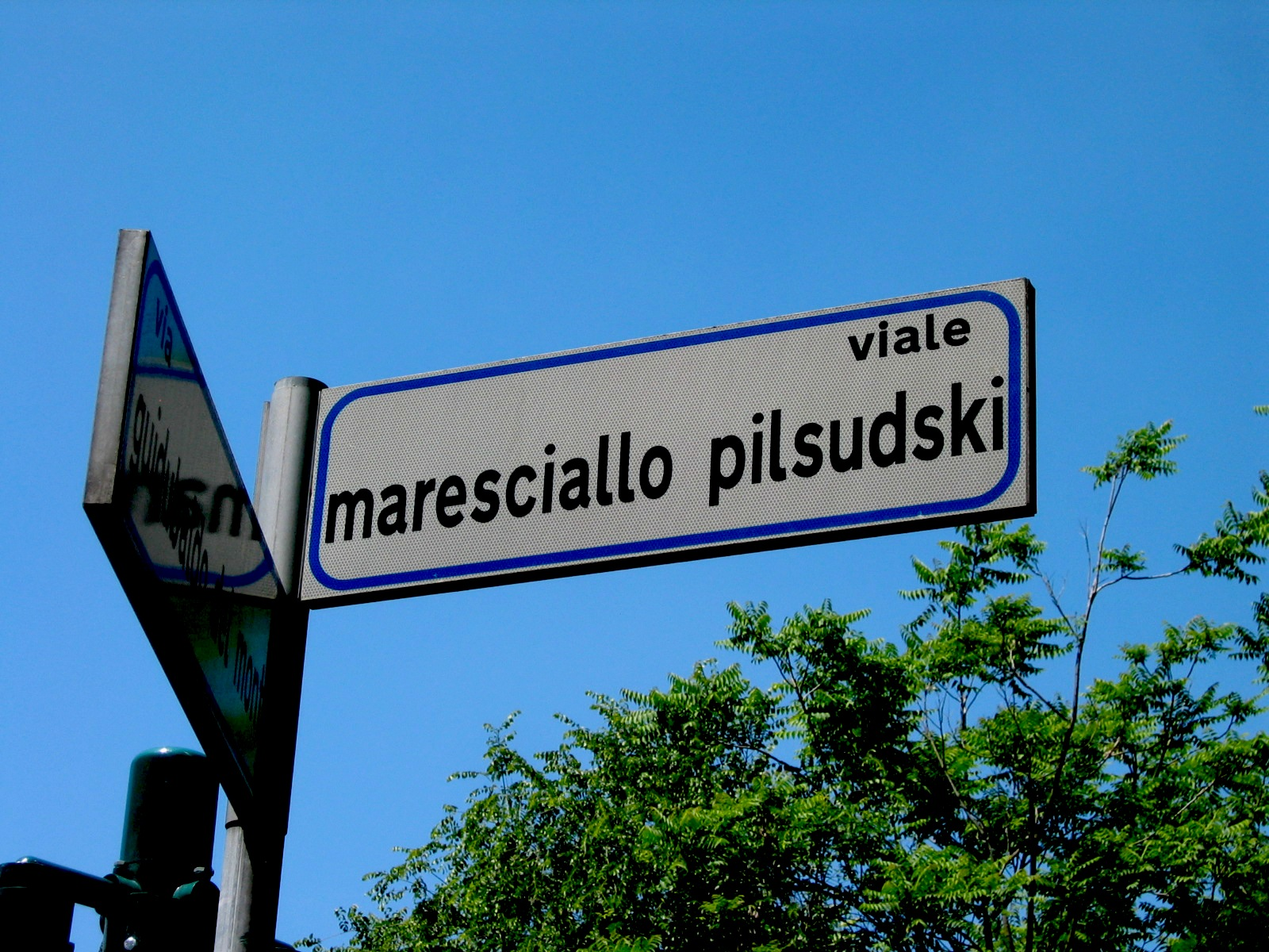 Rome, Marshal Pilsudski Avenue